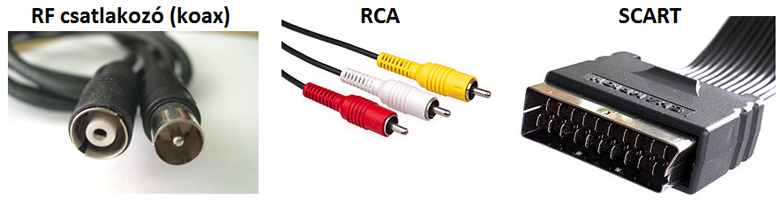 Video connectors